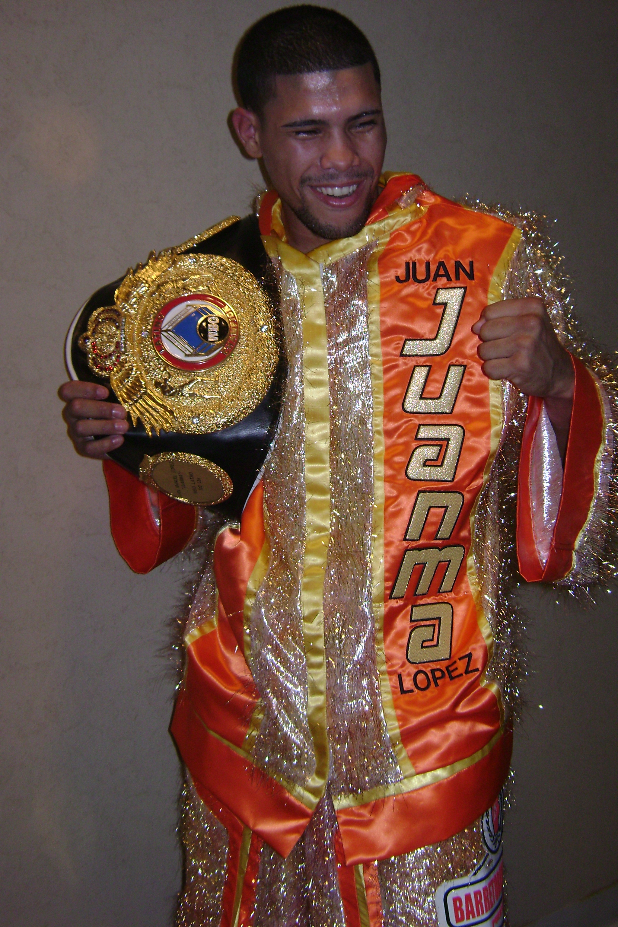 Picture of Puerto Rican boxer Juan "Juanma" Manuel Lopez on October 31, 2007